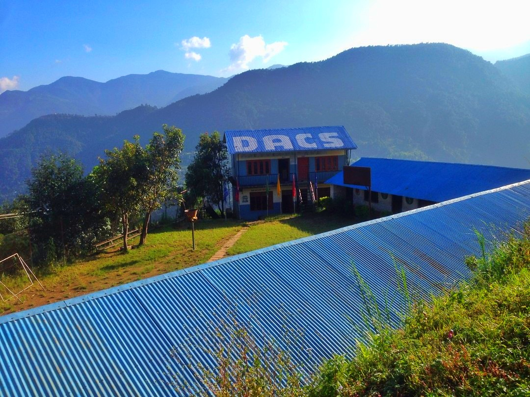 dacs